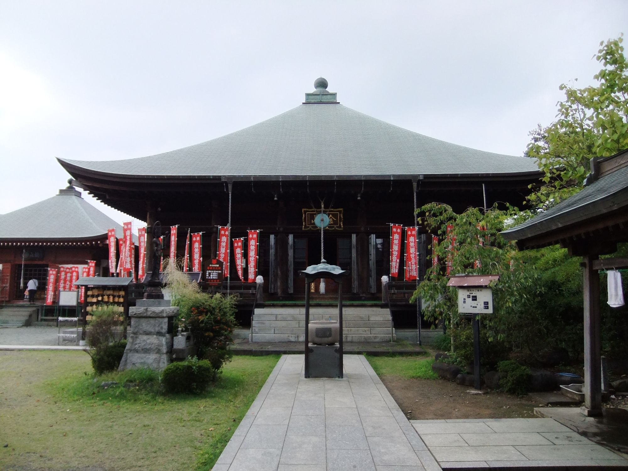 Kōmyō-ji temple in Hiratsuka, Kanagawa